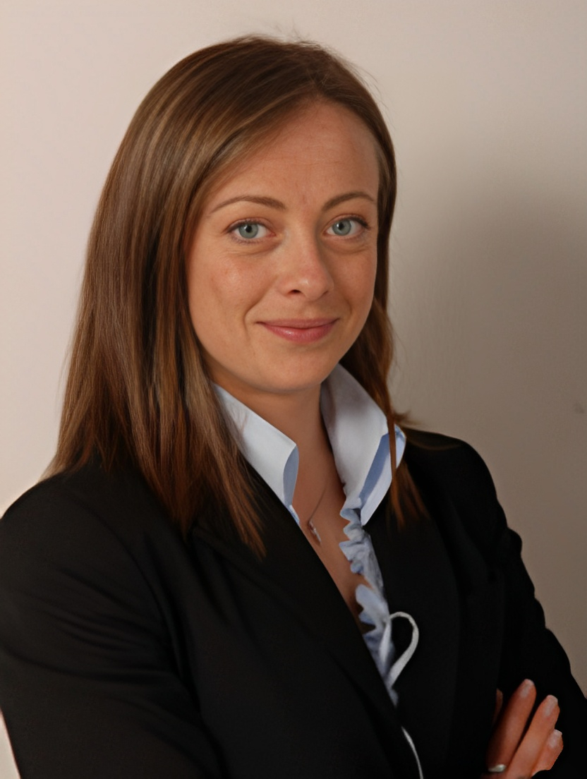 Giorgia Meloni